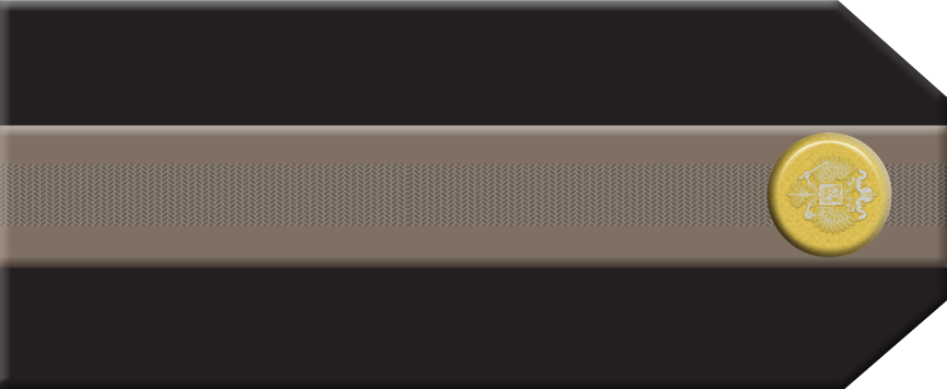 Rank insignia of the Imperial Russian Navy (IRB) until 1917, here "Guard marine" (OR8).